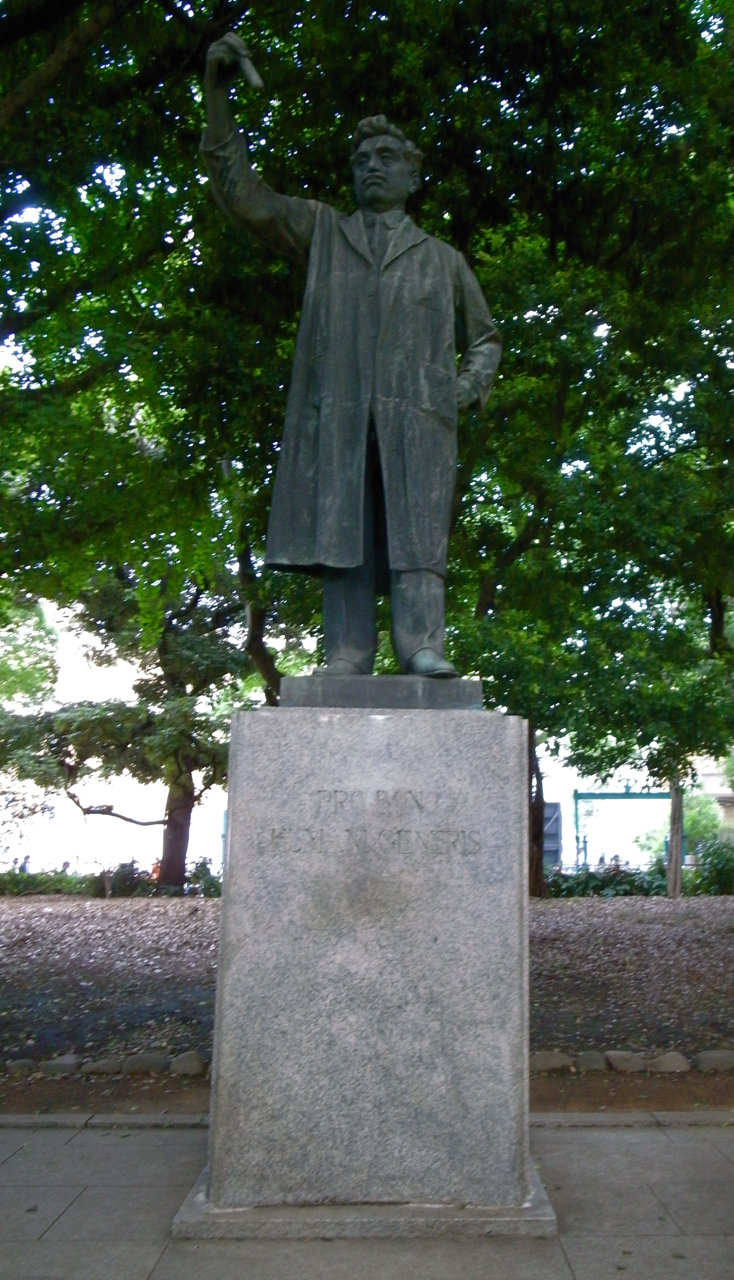 Statue of Hideyo Noguchi in Ueno Park, Tokyo, Japan.